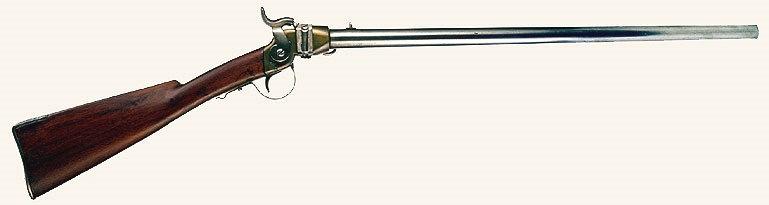 Tarpley breech-loading carbine. Unfinished brass barrell and wood stock engraved on the barrel tang, “Jere Tarpley, February 14, 1863.” Dimensions: 8.5" H x 40" W x 2.25" D